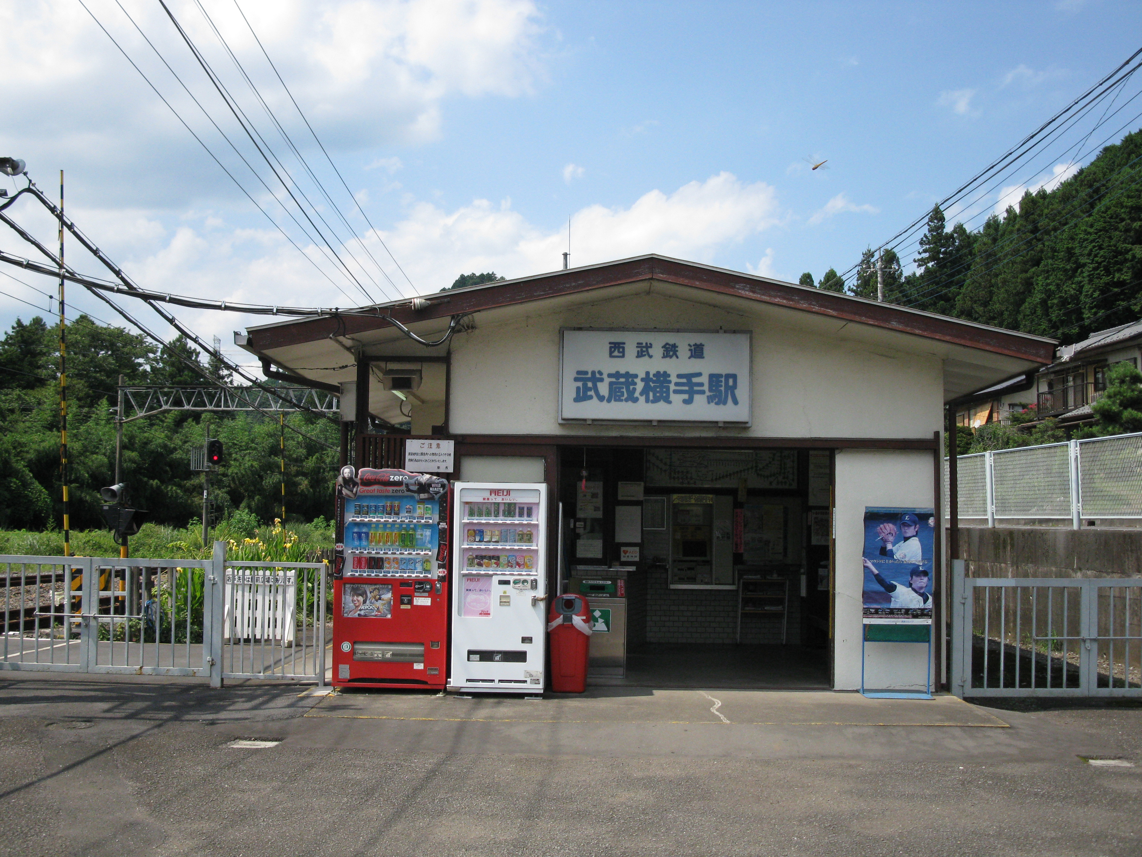 Musashi-Yokote Station building (Seibu Railway Ikebukuro Line)